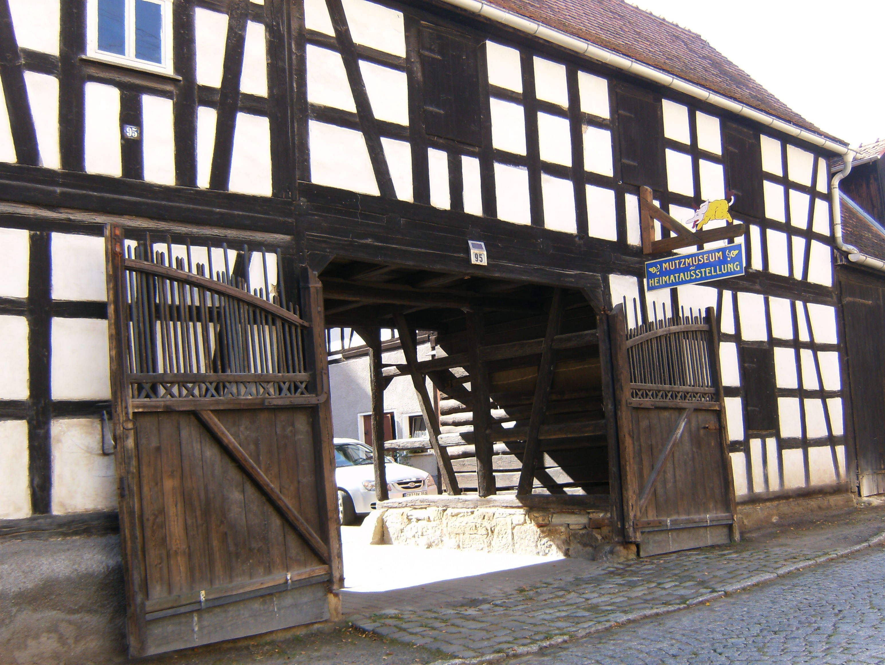 So called "Mutz"- and village museum in a timber framed farm in Kraftsdorf in Landkreis Greiz (Thuringia.